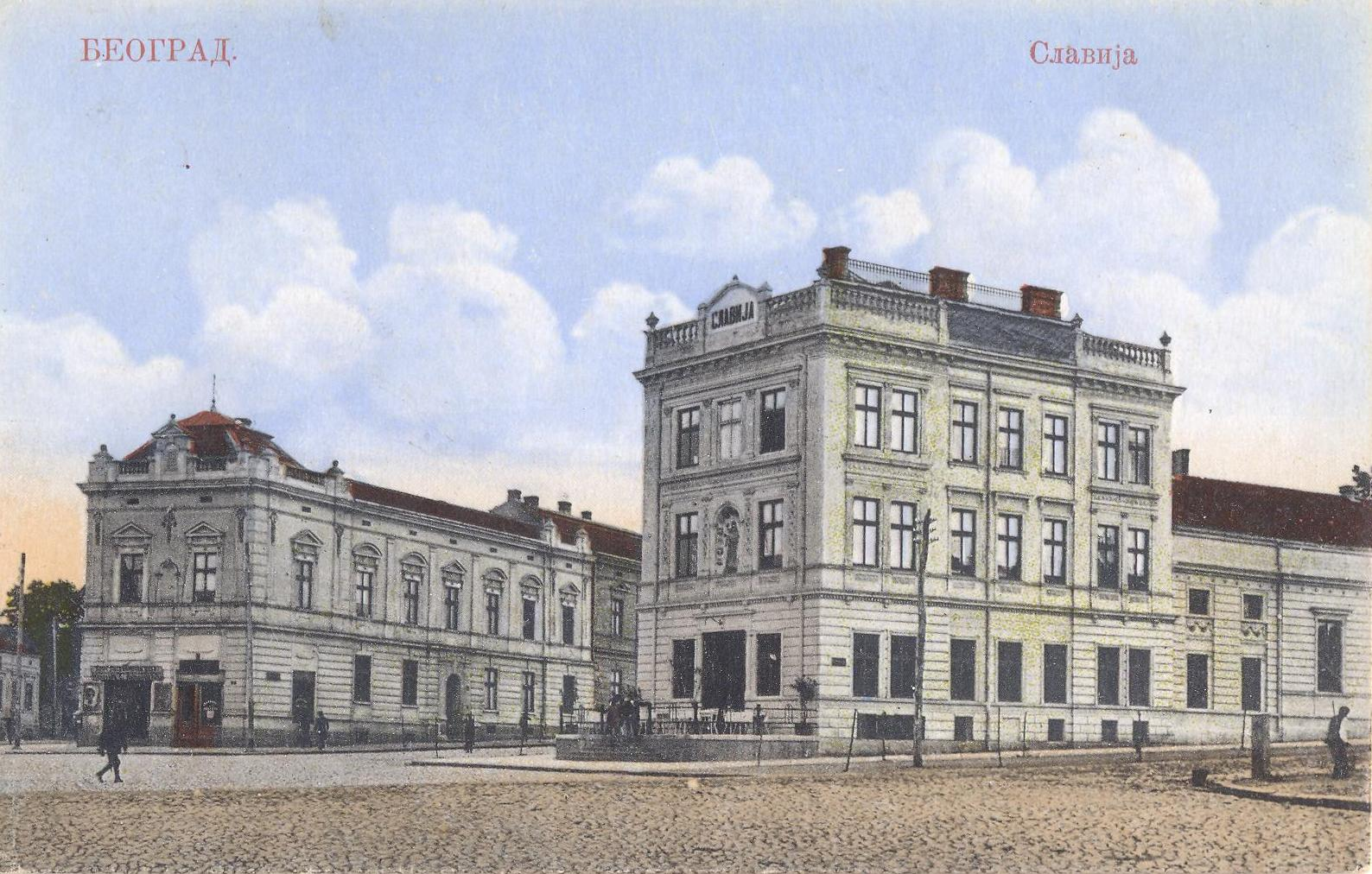 Slavija Square, Beograd